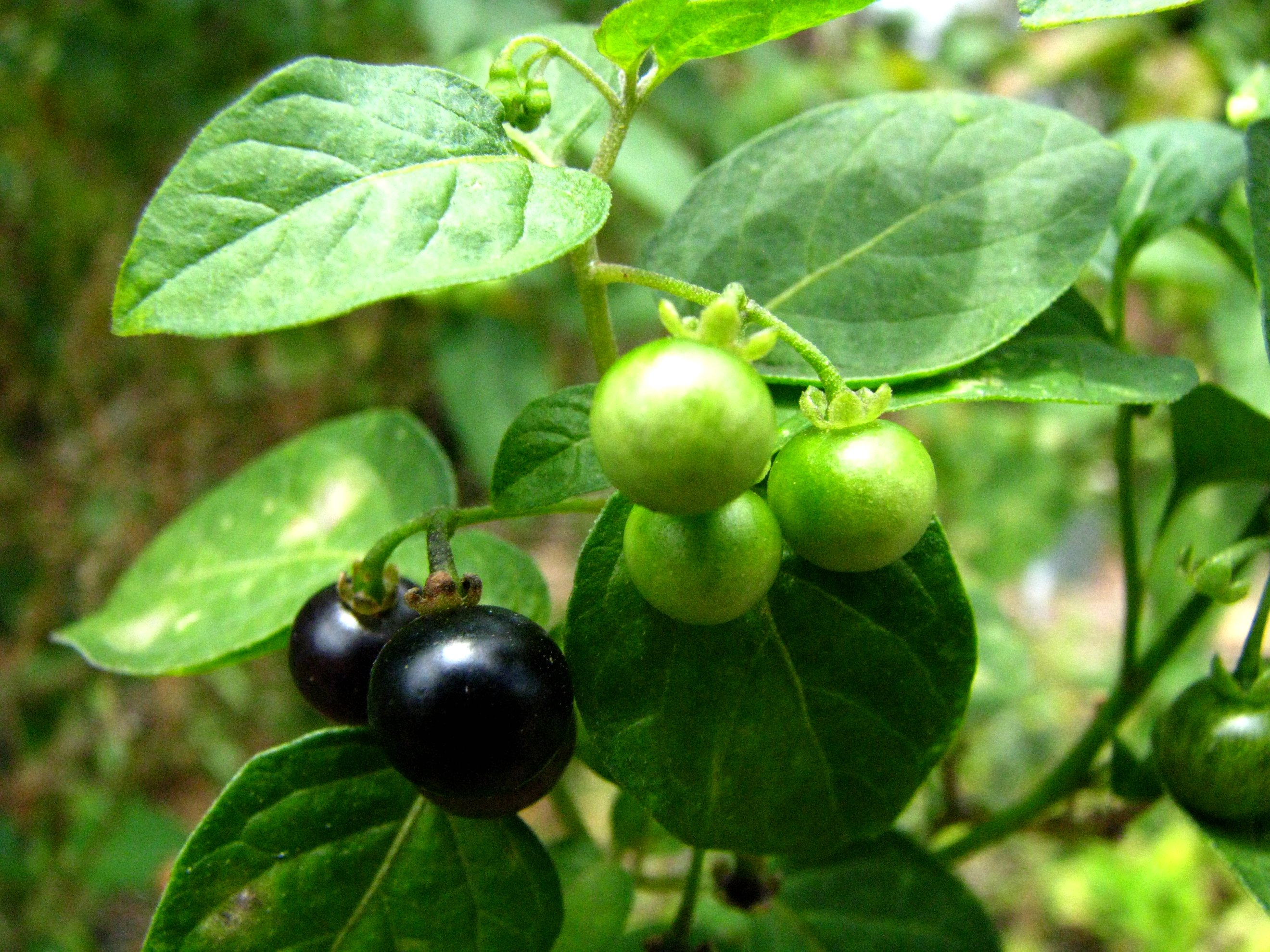 Pōpolo or glossy nightshade Solanaceae Indigenous? to the Hawaiian islands Oʻahu (Cultivated) Young shoots were blanched or eaten raw. Purple fruits are regularly eaten by early Hawaiians as they are today. The taste is mildly sweet with a hint of tomato